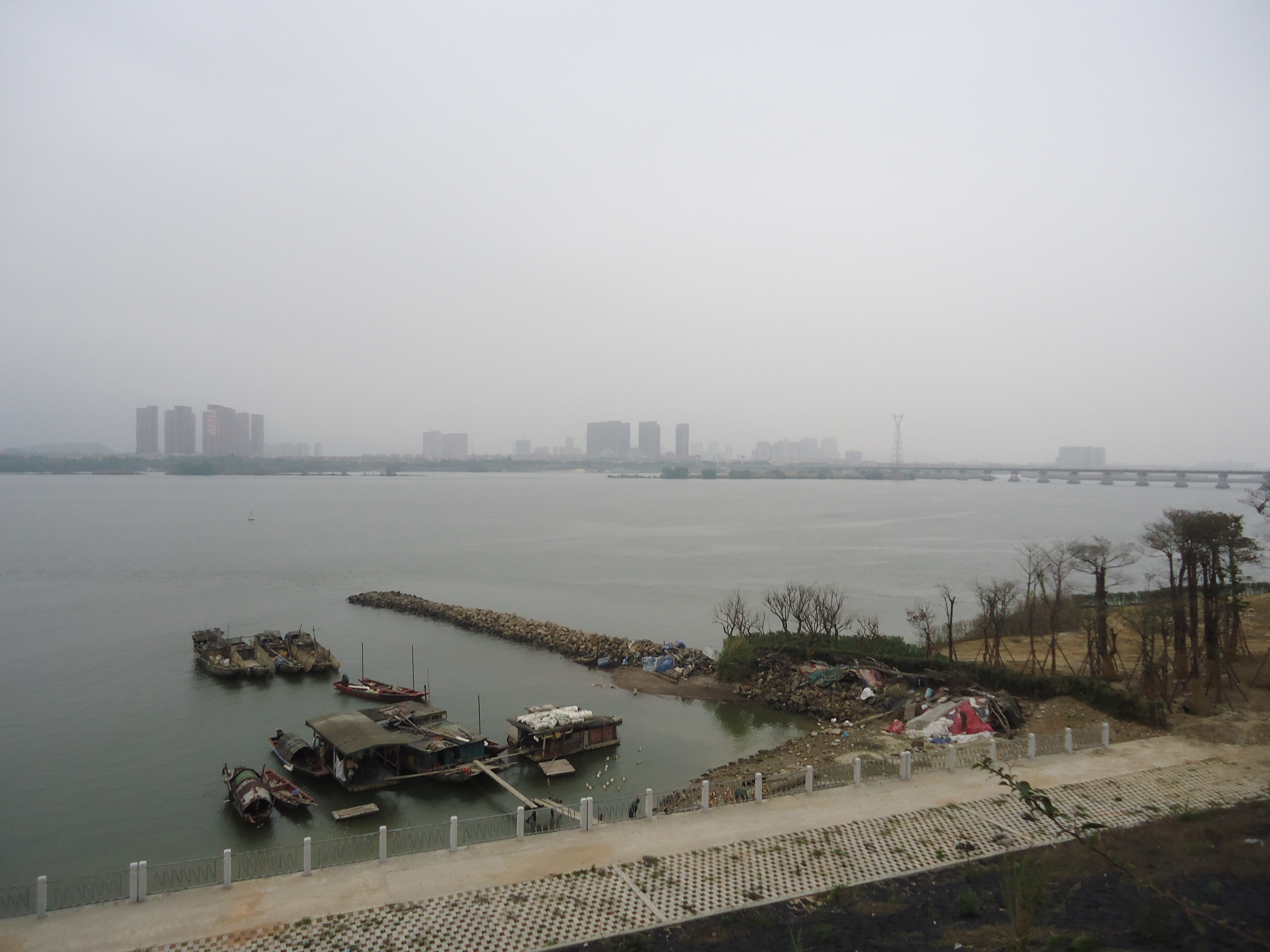 Wulong River ,taken in March 21 ,2015.